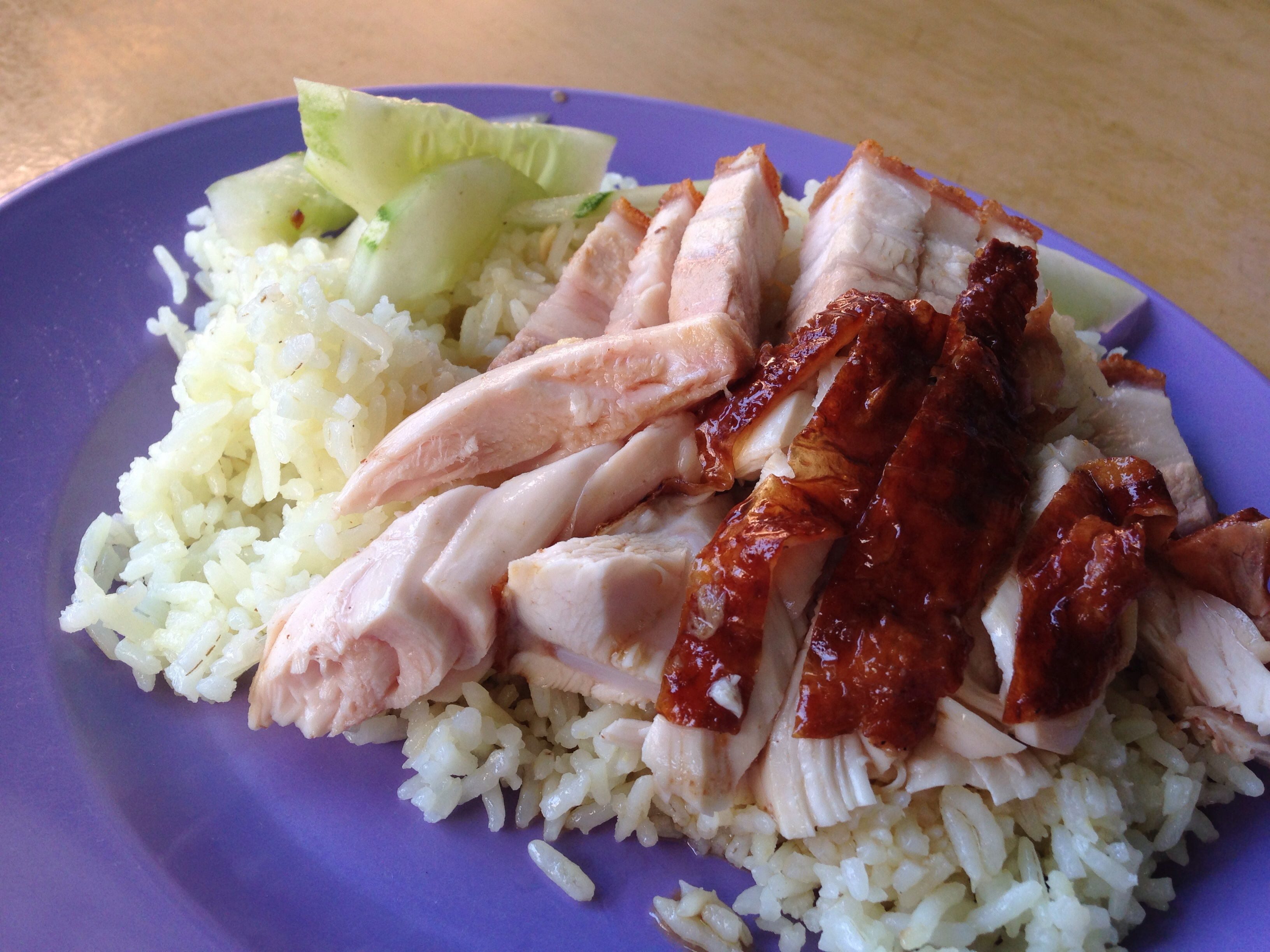 chicken rice in KL